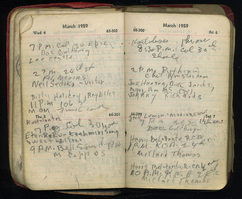 Personal datebook from 1959 maintained by Milt Hinton